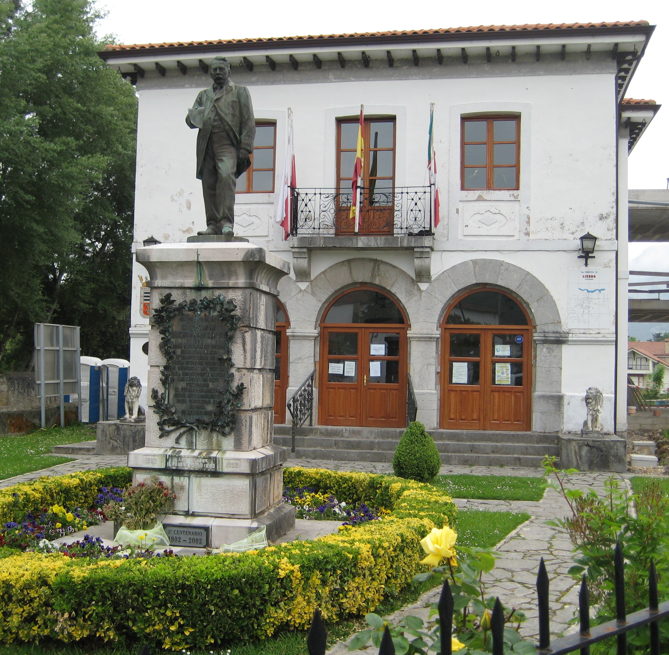 Monument to Luis de Avendaño y López and town hall of Liendo, in Hazas.